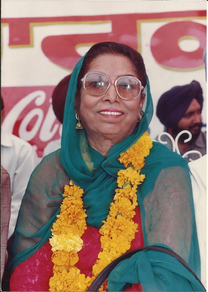 panjabi singer